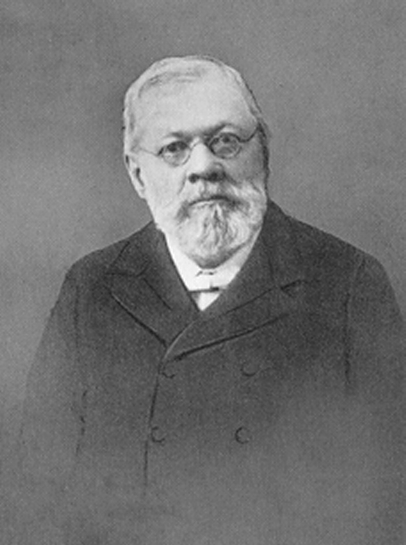 Elderly Charles D. Poston, Delegate to the U.S. House of Representatives from Arizona Territory (1864-1865)